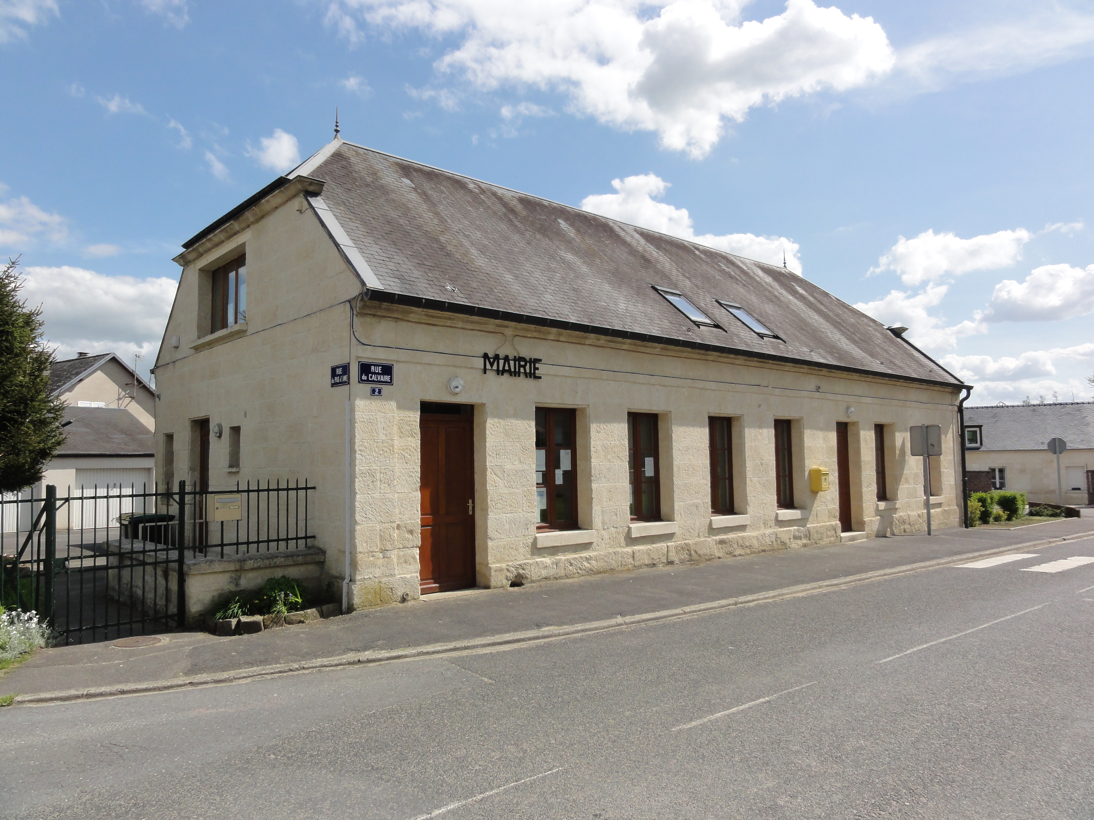 Vaucelles-et-Beffecourt (Aisne) mairie